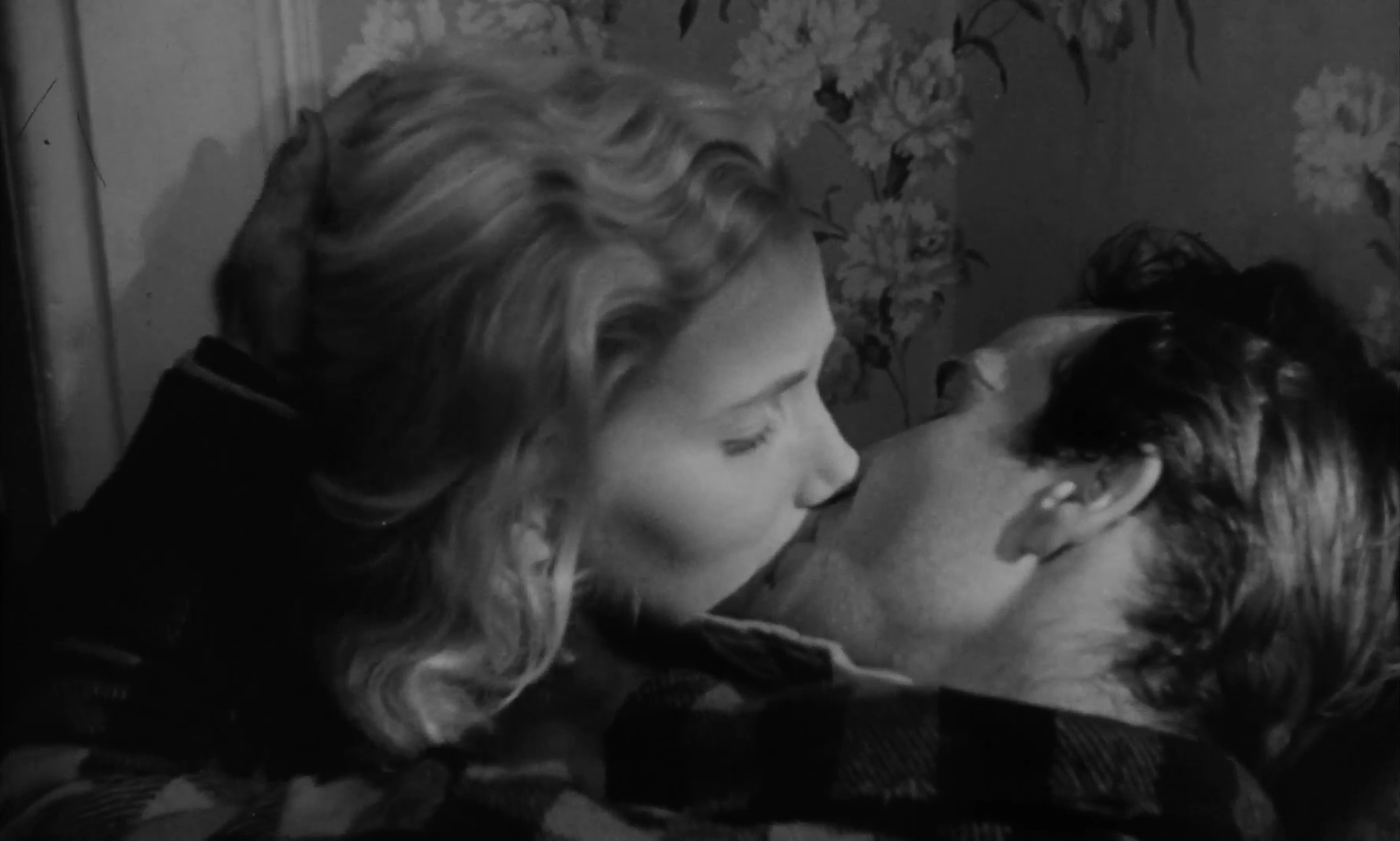 Marlon Brando and Eva Marie Saint in a screenshot from the trailer for the film On the Waterfront.